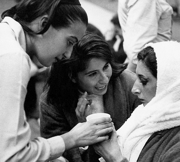 Natalia Sanguinetti gives something to drink to her team mate Antonella Ragno, with her head covered by a towel, while Giovanna Masciotta gives her hints; Ragno, who reached the final for the individual foil competition at the Olympics in Tokyo, appears to be rather tense. Tokyo (Japan), October 1964.